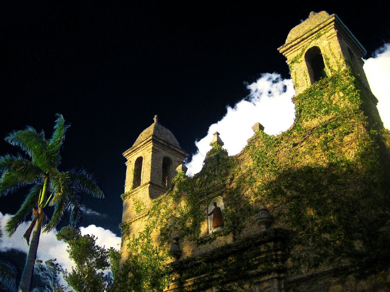 The Plymouth Congregational Church in Coconut Grove, FL.